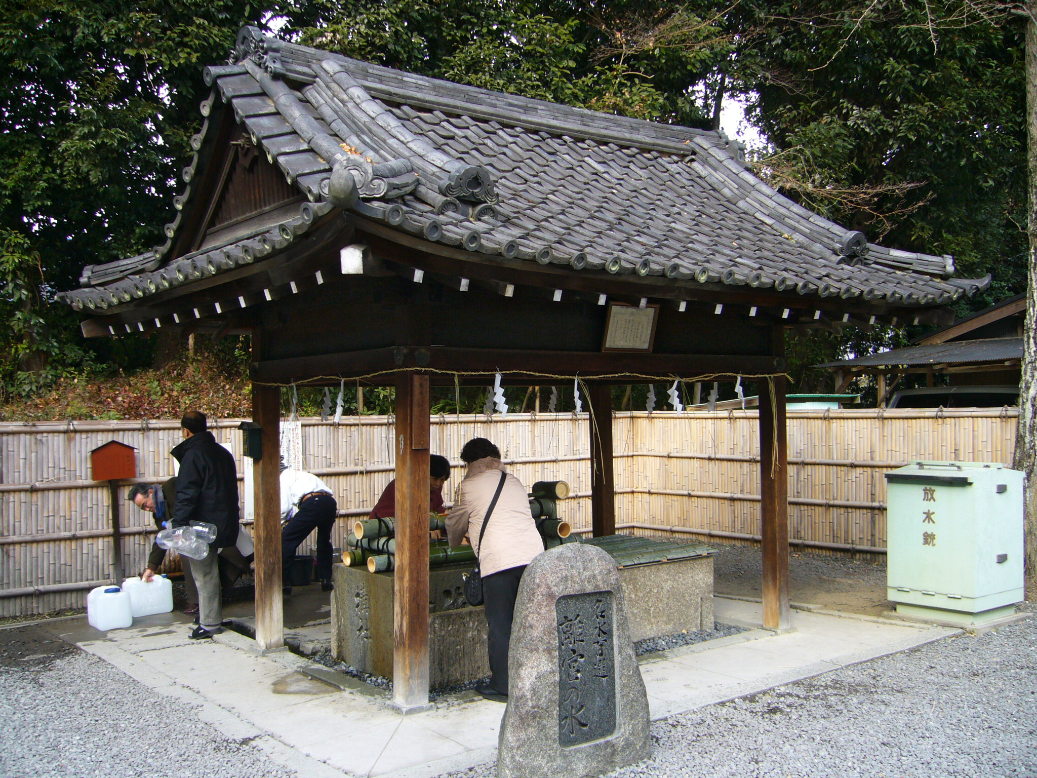 Minase-jingu in Shimamoto, Osaka prefecture, Japan